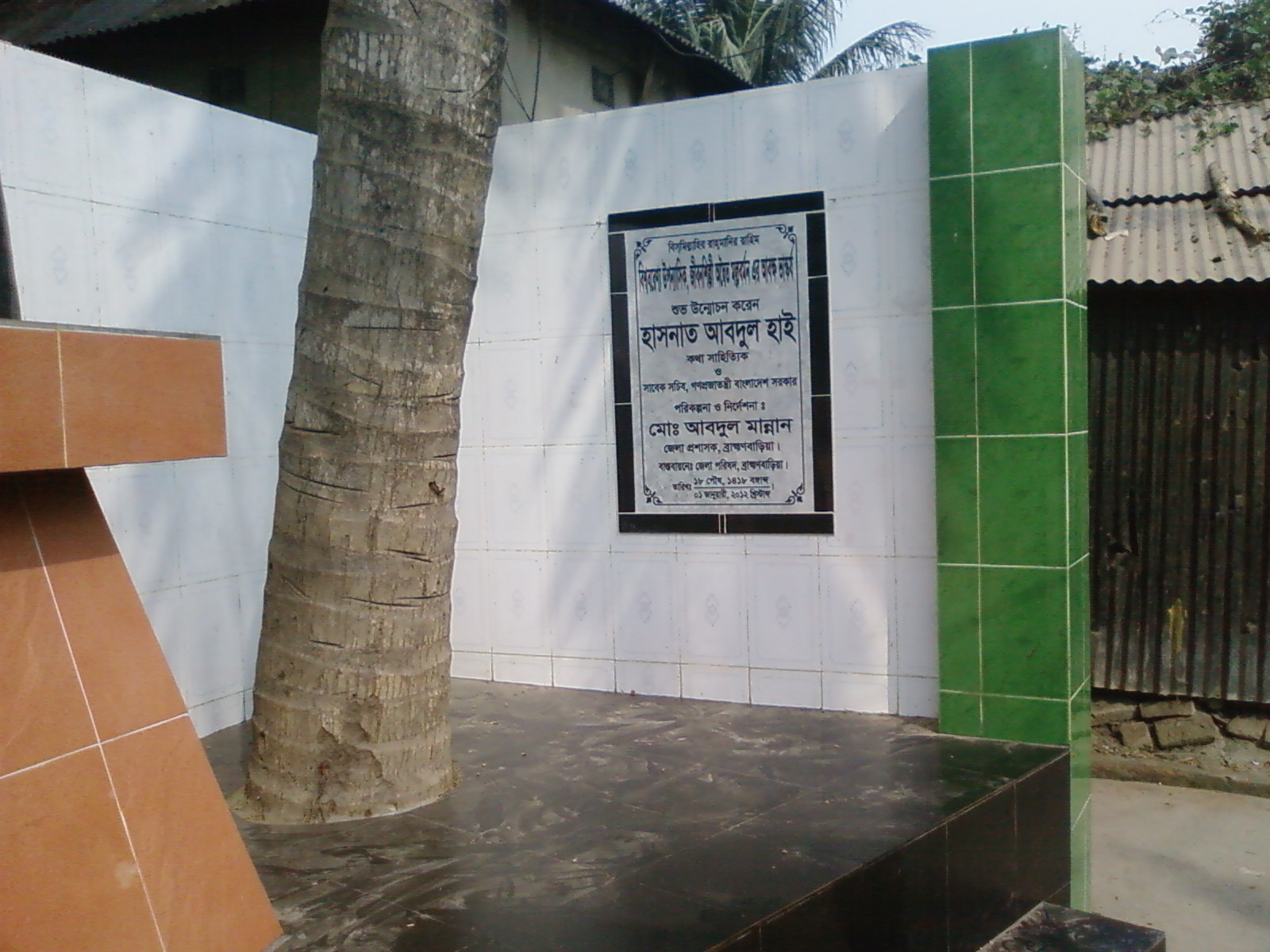 Name plate of late Advaita Mallabarmana, front of his house in Gokarna Ghat in Brahmanbaria, Bangladesh.